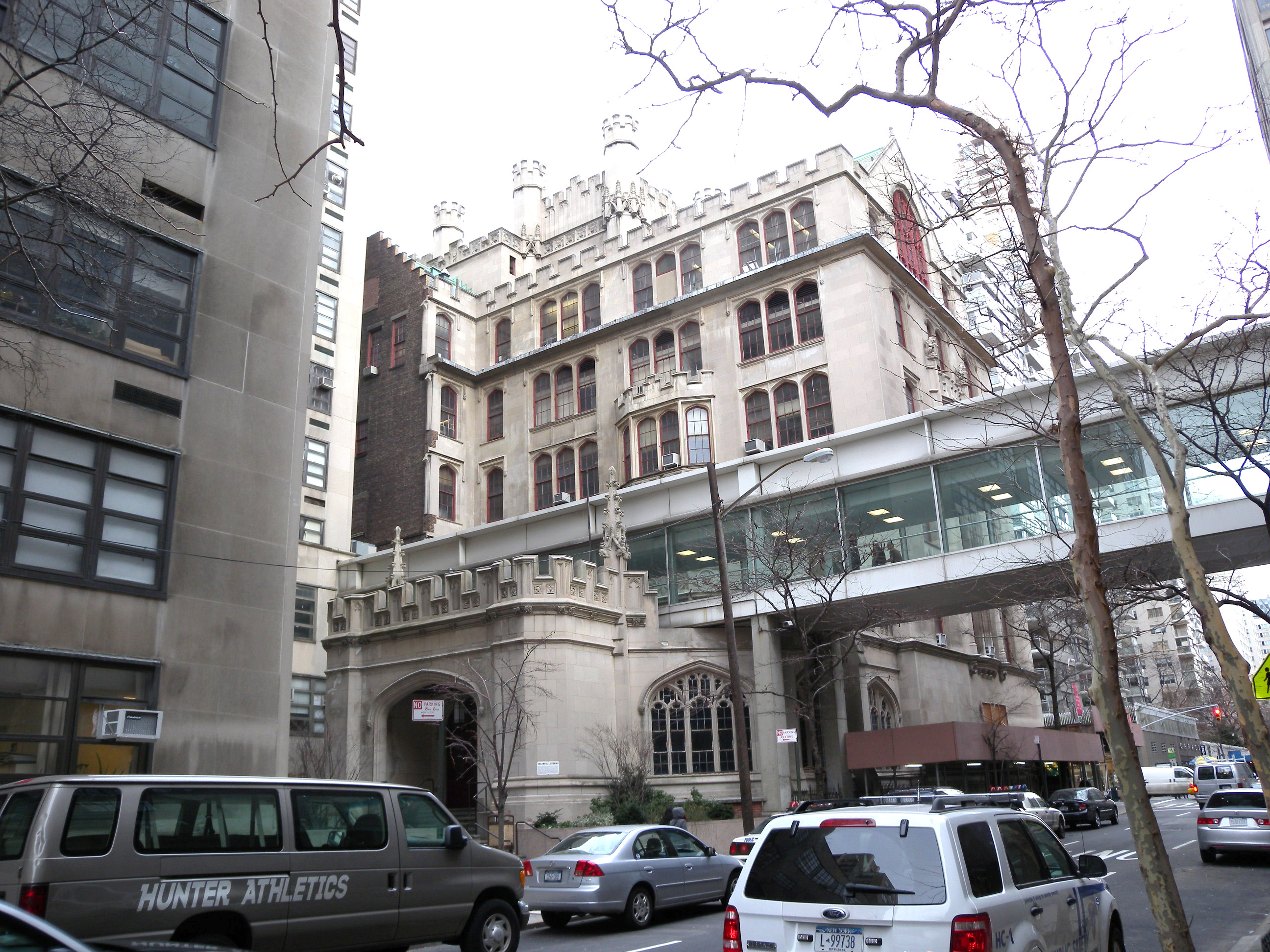 Looking east across East 68th Street at Hunter College skyway on a cloudy afternoon.